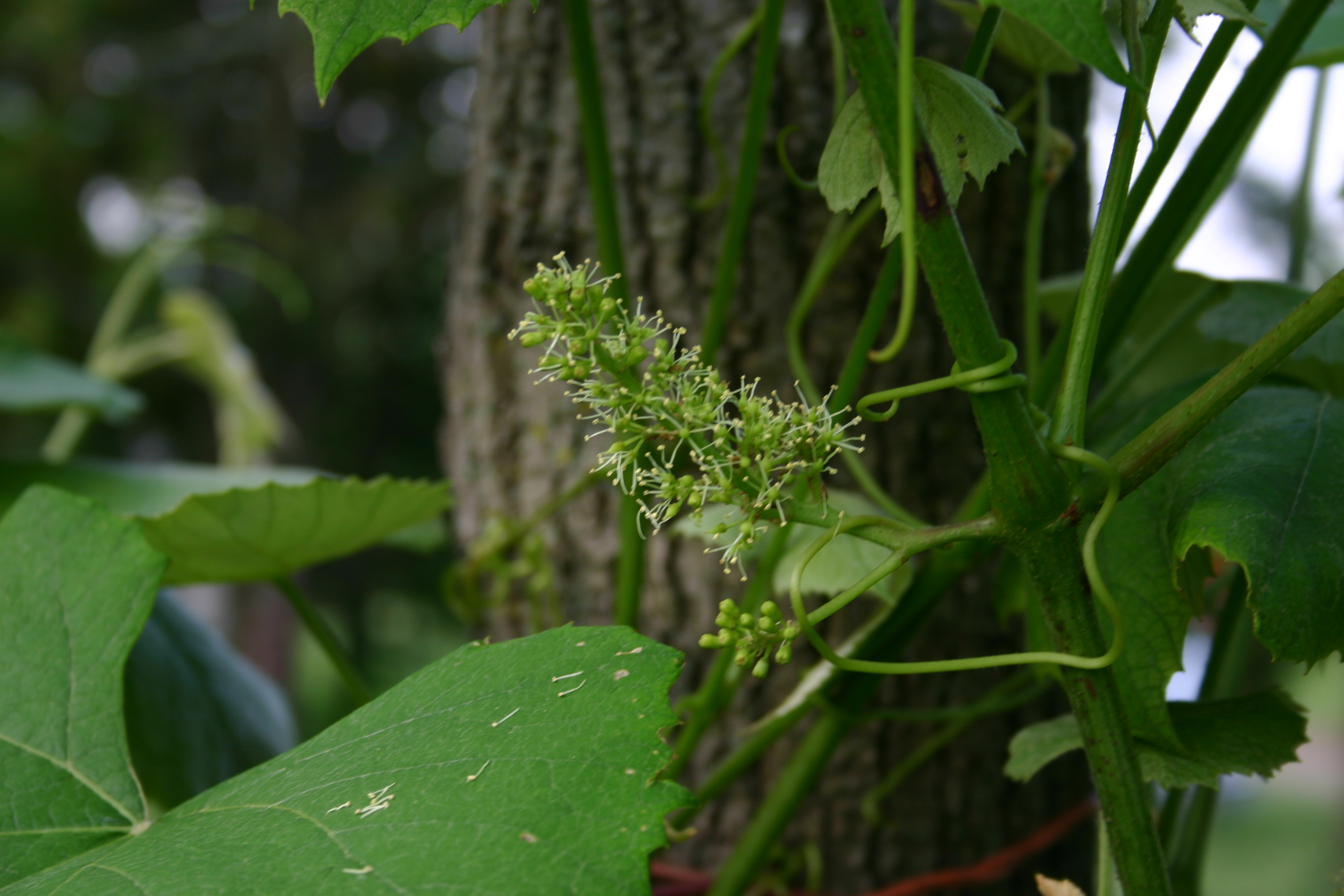 flowers of Vitis 'Concord'